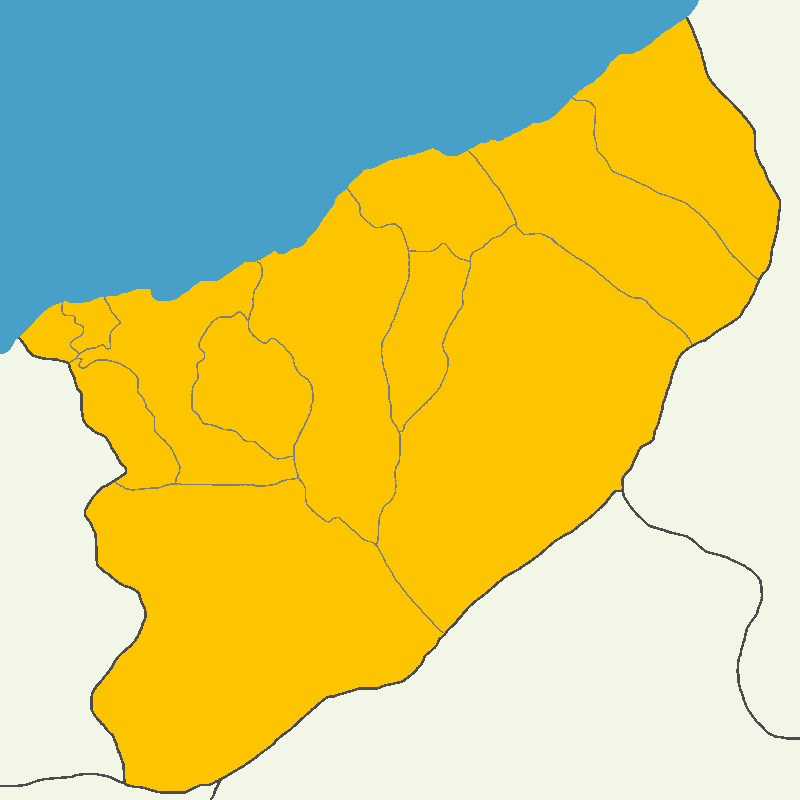 Rize'de 2014 Türkiye cumhurbaşkanlığı seçimi sonuçları